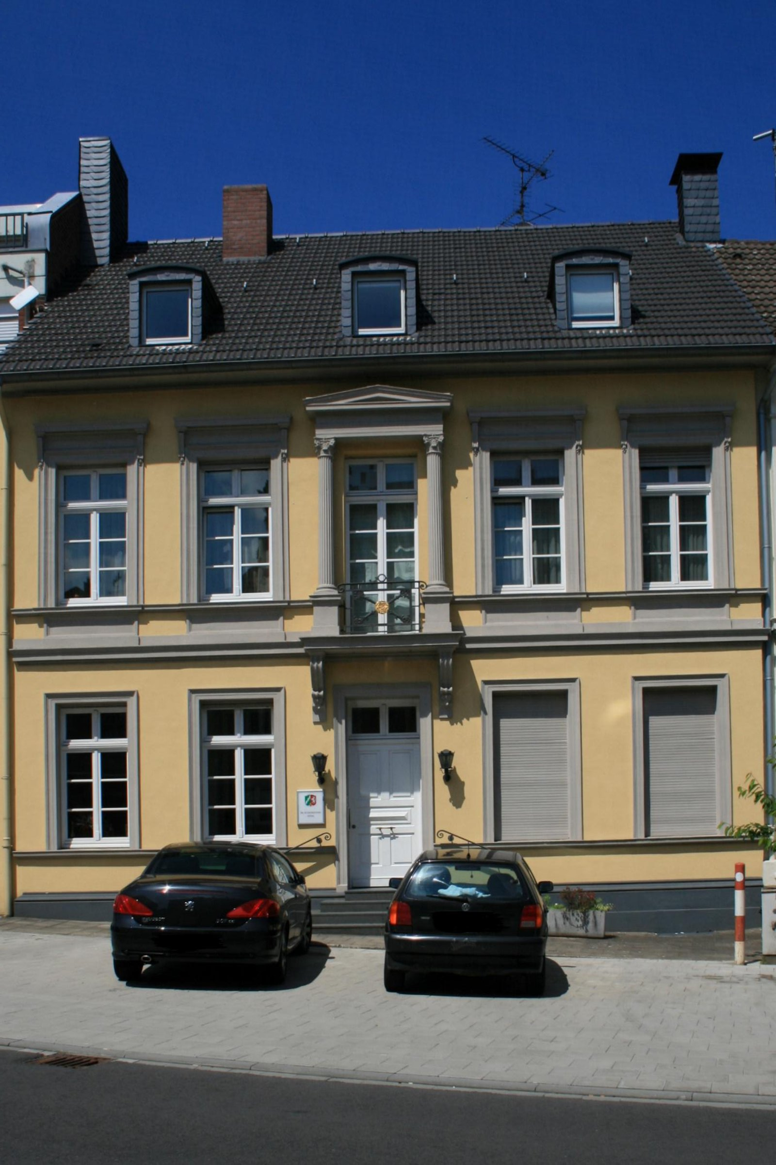 Cultural heritage monument No. R 025 in Mönchengladbach